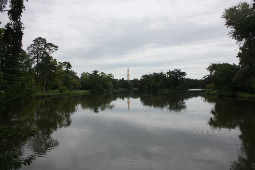 Lednice na Moravě, Czech republic, english park